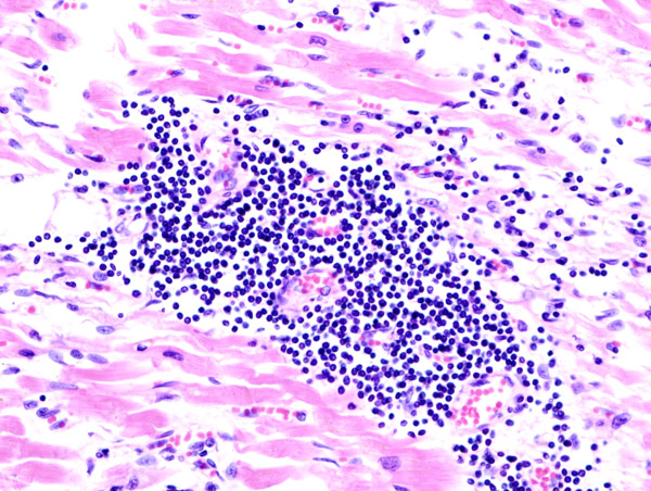 imagen microscopica de una miocarditis/endocarditis viral y o bacteriana